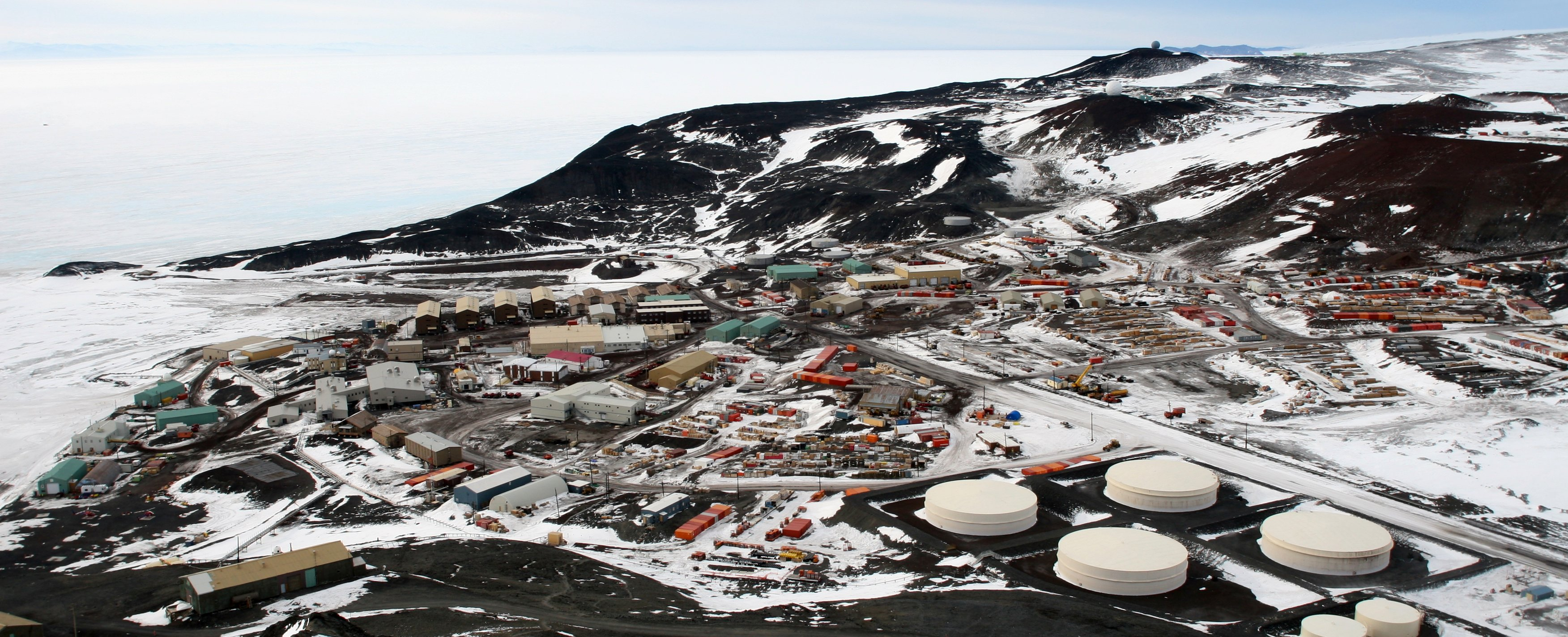 McMurdo Station on Ross Island, Antarctica, taken from Observation Hill.